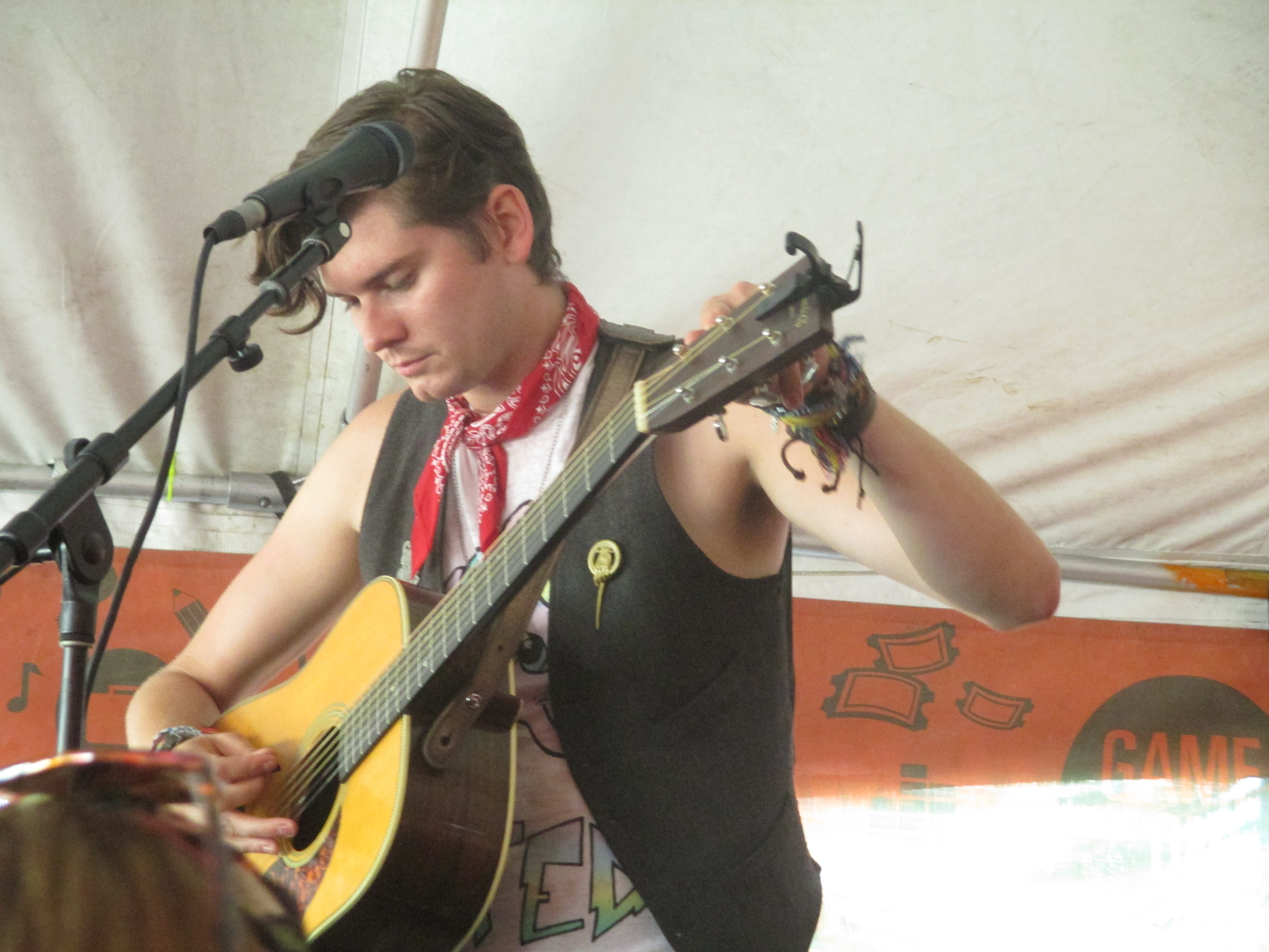 William Beckett playing the Acoustic Basement tent at the Milwaukee stop of the 2013 Van's Warped Tour